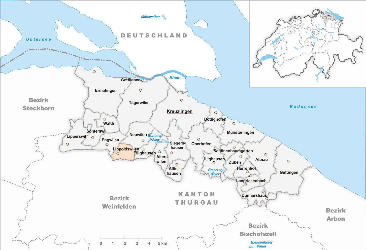 Municipality Lippoldswilen